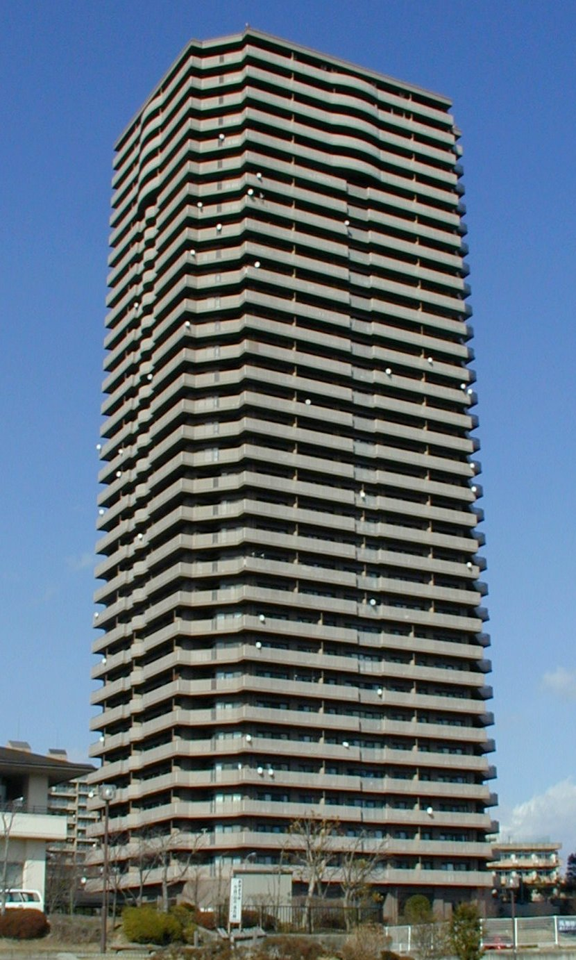 DiaCity 2000 Moniwa Atlas Tower viewed from the south